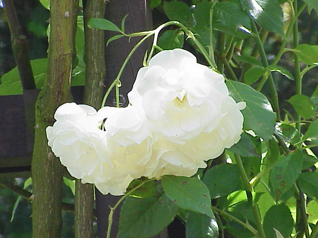 Species: Rosa sp. Family: Rosaceae Cultivar: Walter Schultheis, Kordes Image No. 295